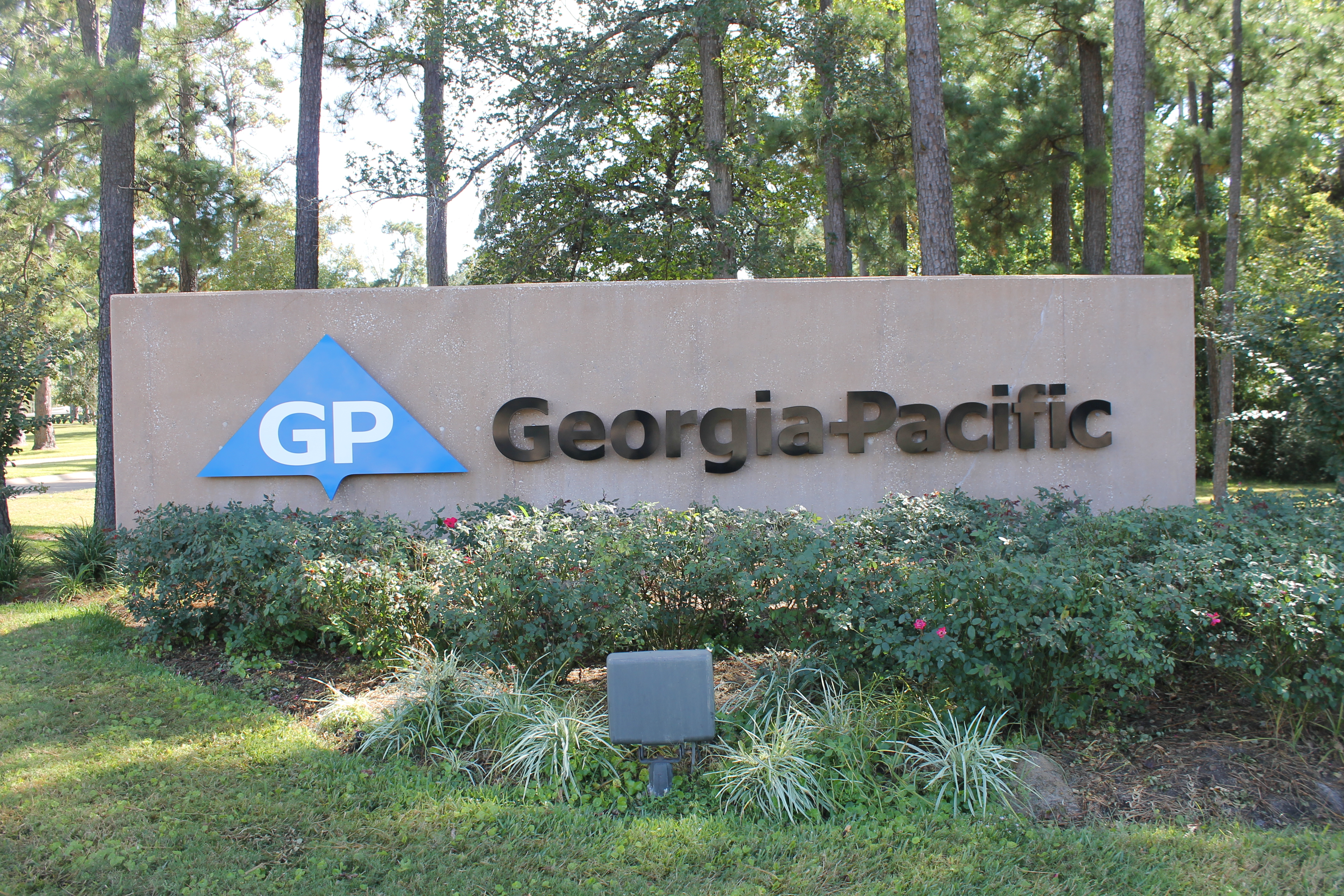 Georgia-Pacific is a major presence in Diboll and Lufkin, TX.